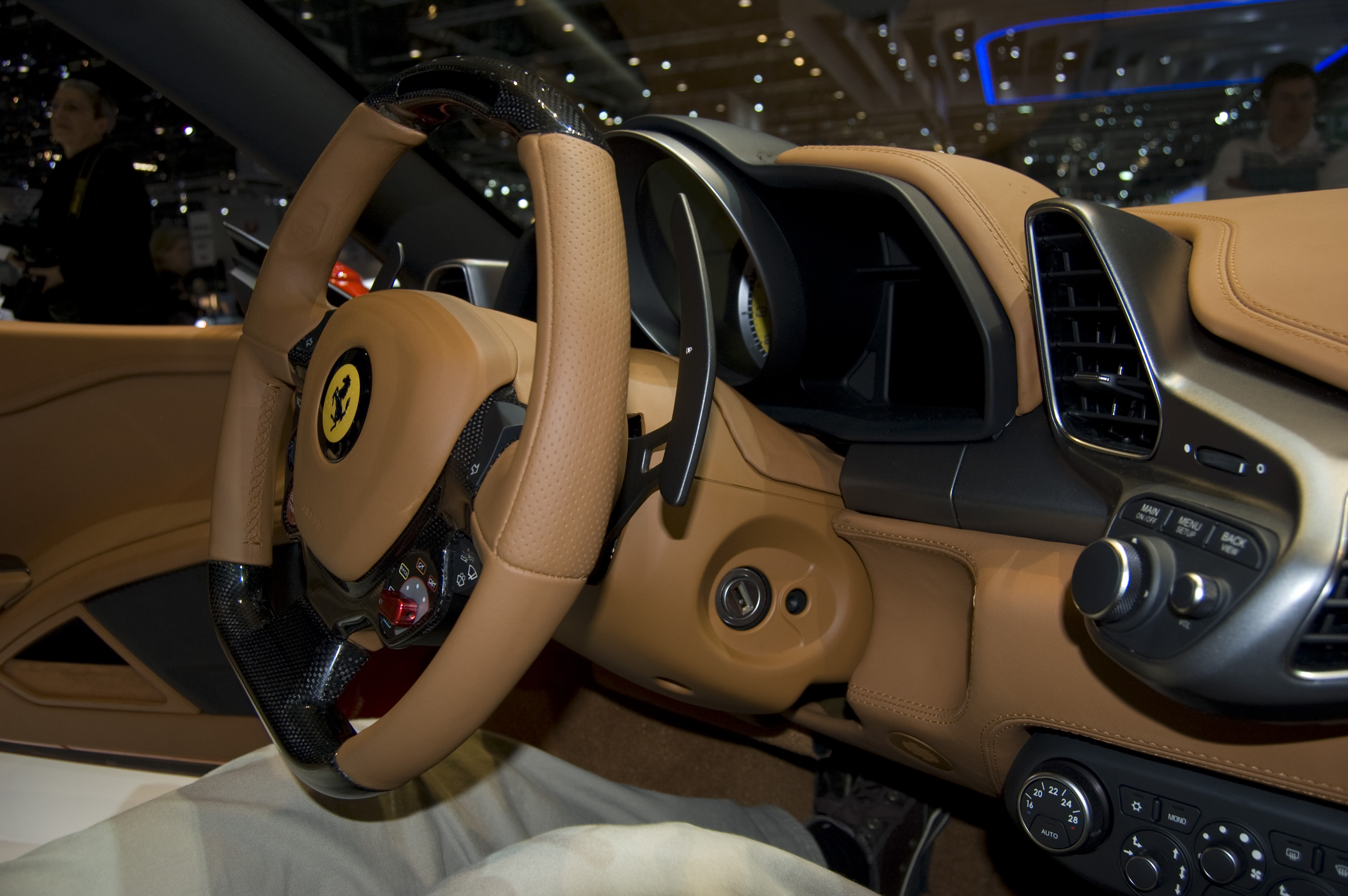 Inside the Ferrari 458 Italia